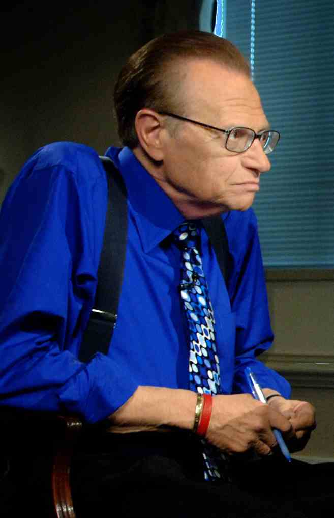 Larry King in 2006